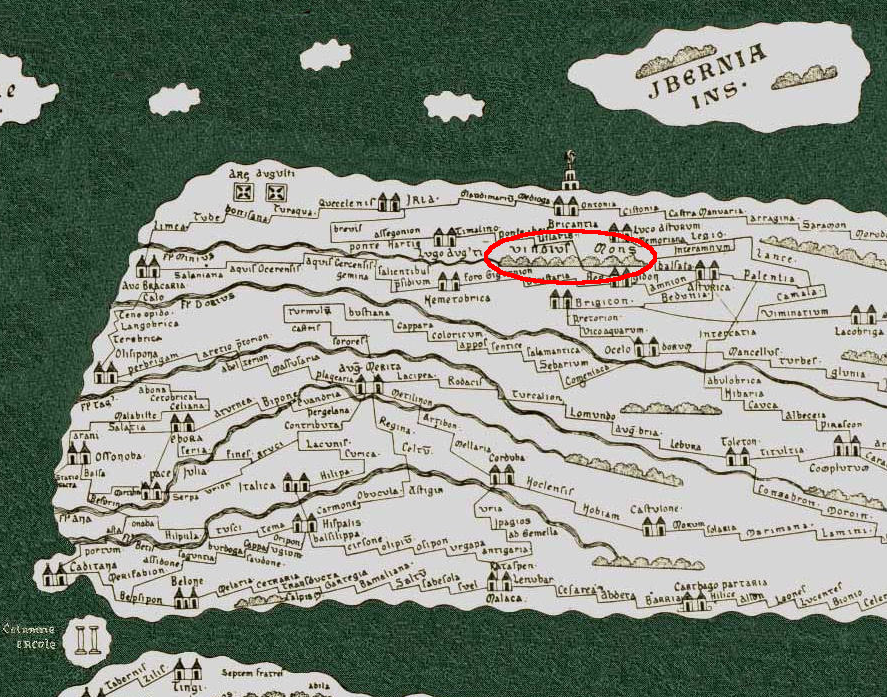 The Vindius Mons in the Tabula Peutingeriana